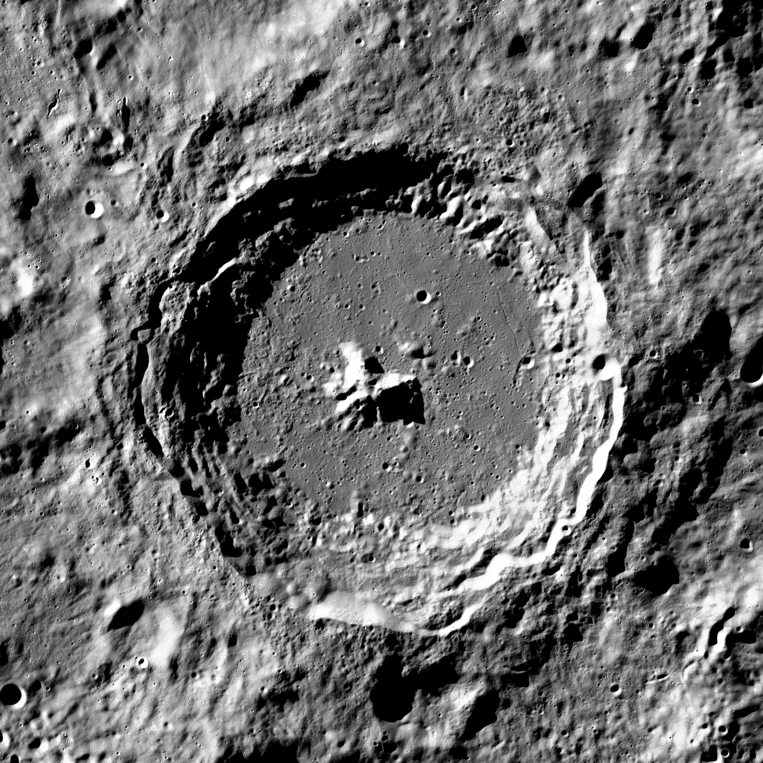 Crater Moretus on the Moon. Mosaic of photos by Lunar Reconnaissance Orbiter, made with Wide Angle Camera. Size of the image is 180×180 km, north is approximately up.